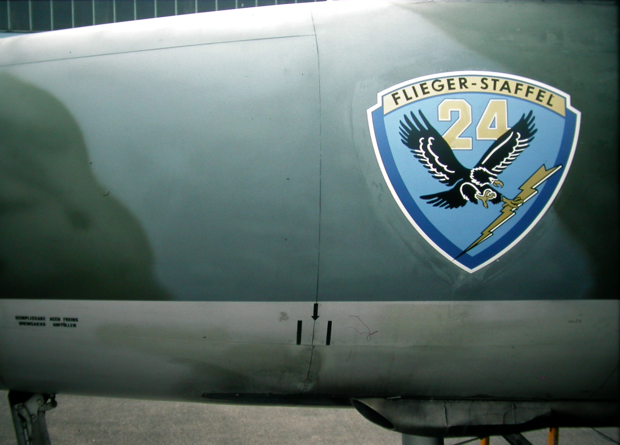 Aden Cannon and Emblem Staffel 24 of a Hunter T68 of the Swiss Air Force. Watch the different shape of the cannon, the T68 only had two Aden cannons instead of four in the single-seat-Hunter. In the case oft the No 24 Sqn emblem, seen here on a then active Swiss Air Force aircraft, the emblem permanently remained and could and can be seen regualarly on at least two aircraft J-4201 and J-4205, even when the aircraft became privately owned. The emblem is actually still displayed both on privately owned Hunter aircraft (ever since 1994) as well as on governement owned PC-9 aircraft (e.g. 2016).